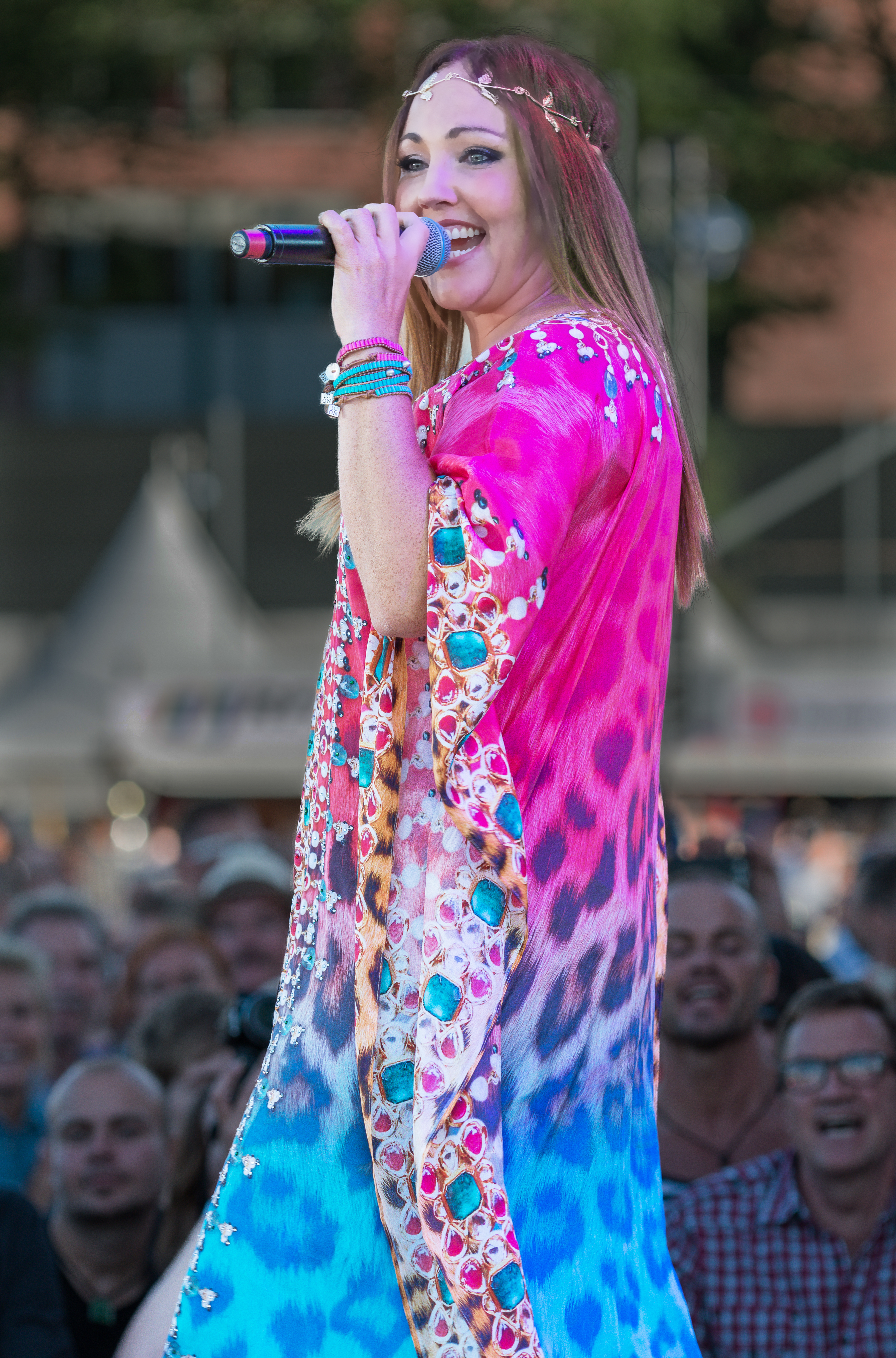 Hanna Hedlund July 2014